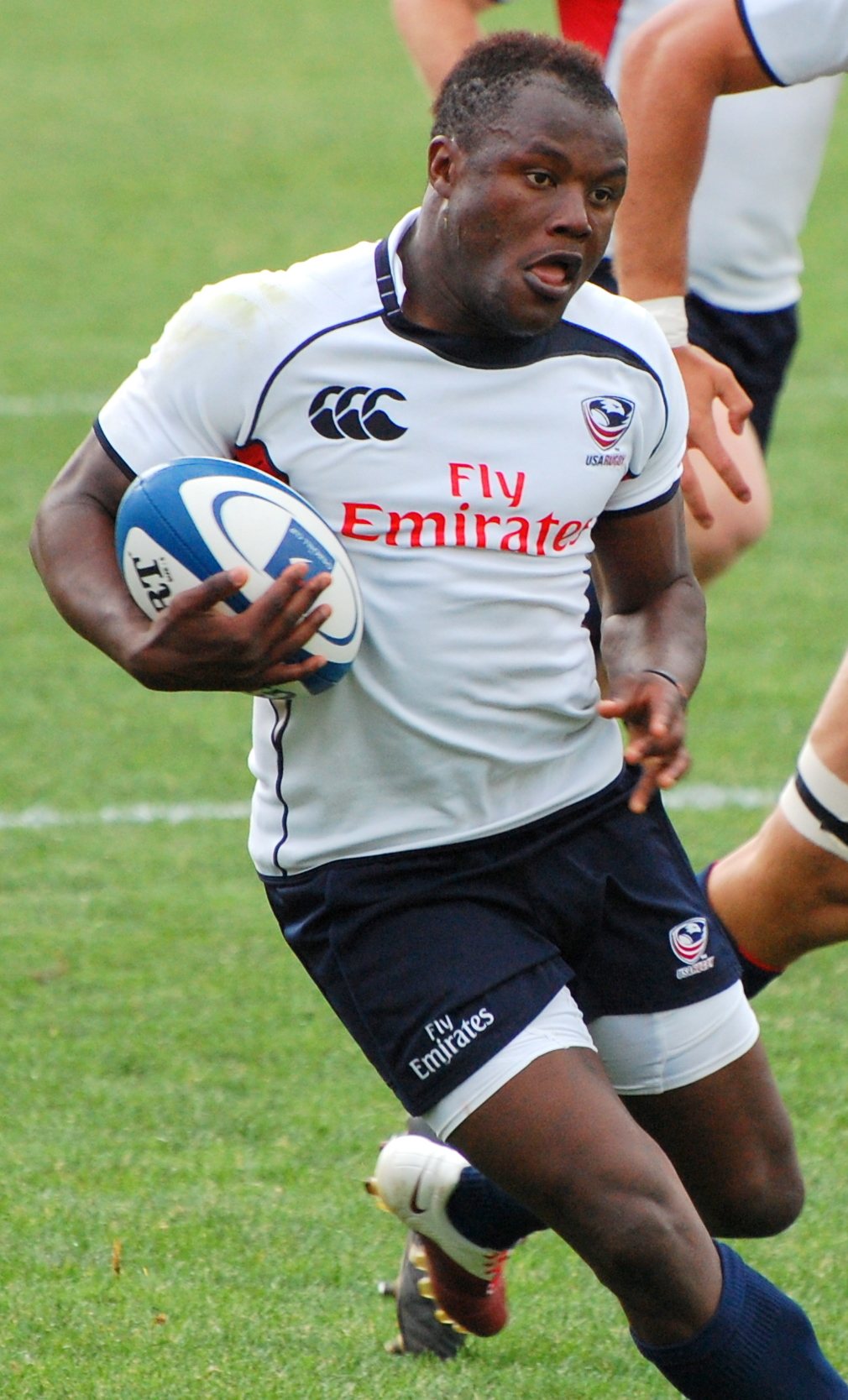 Takudzwa Ngwenya of the USA Eagles running with the ball on his way to scoring a try against Russia during the 2010 Churchill Cup.